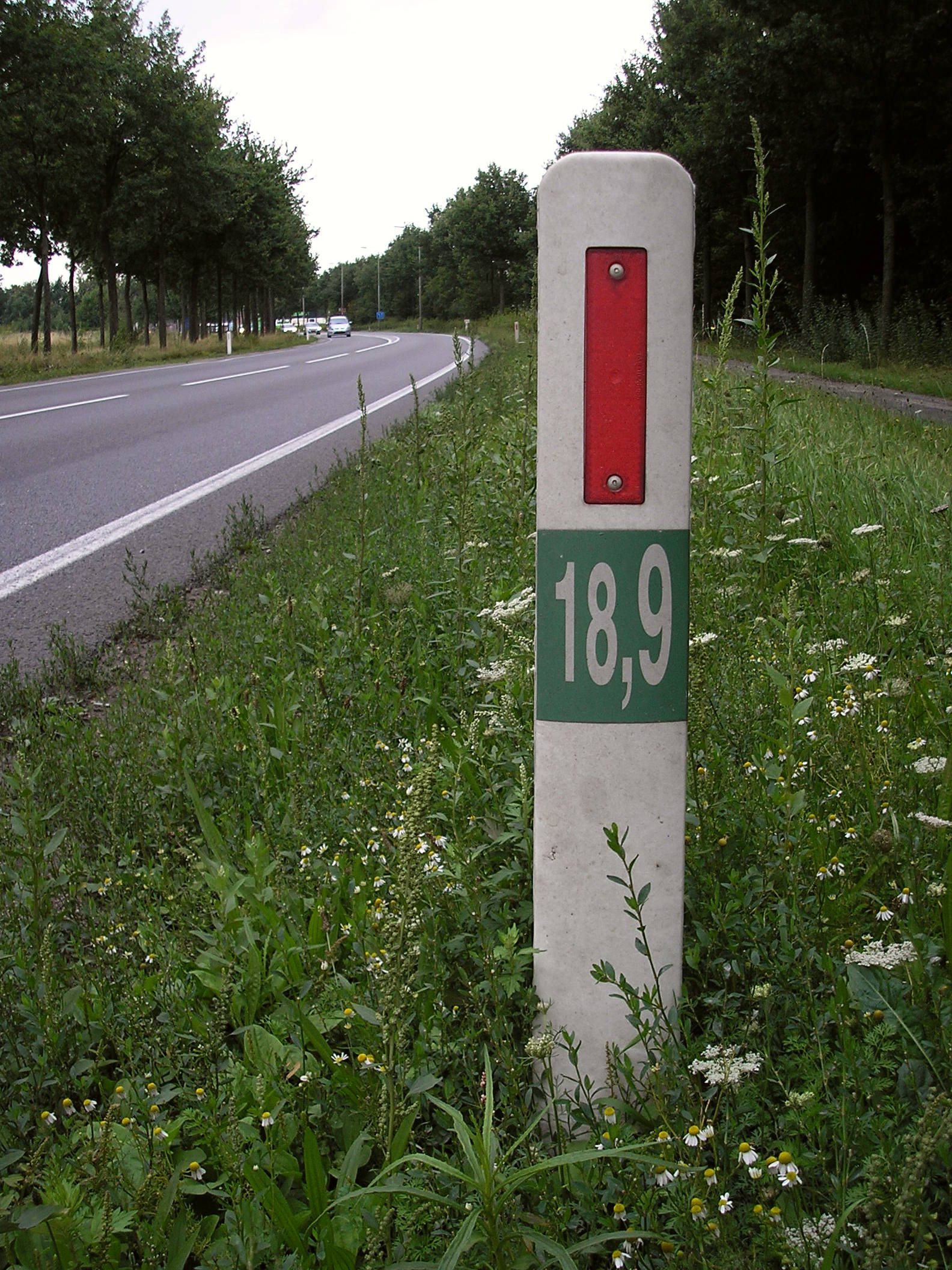 Combined roadside reflector and hectometer sign on N276, Limburg, Netherlands.